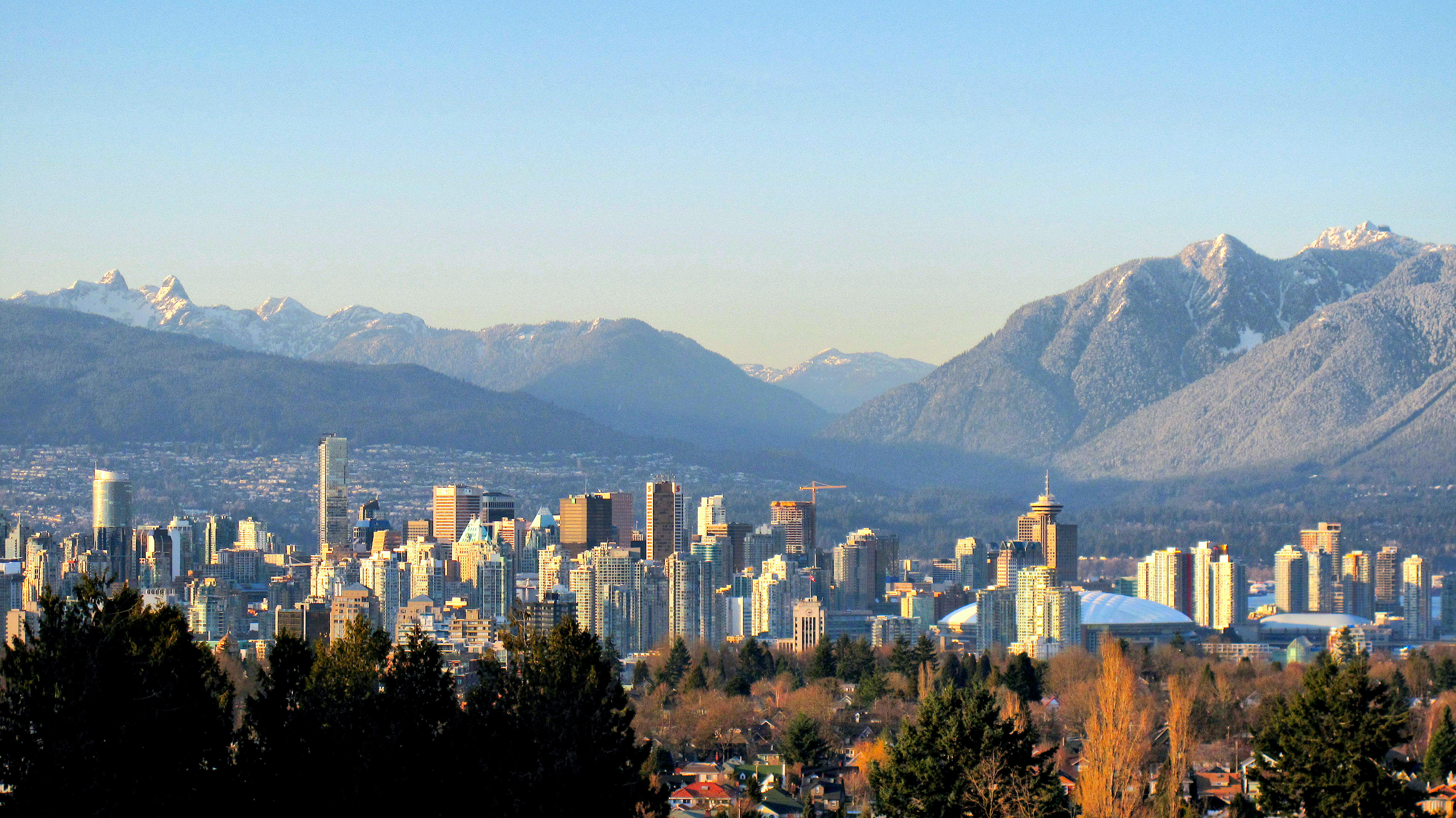 I drove up to Queen Elizabeth Park after work to catch this shot of the North Shore Mountains dusted in snow.